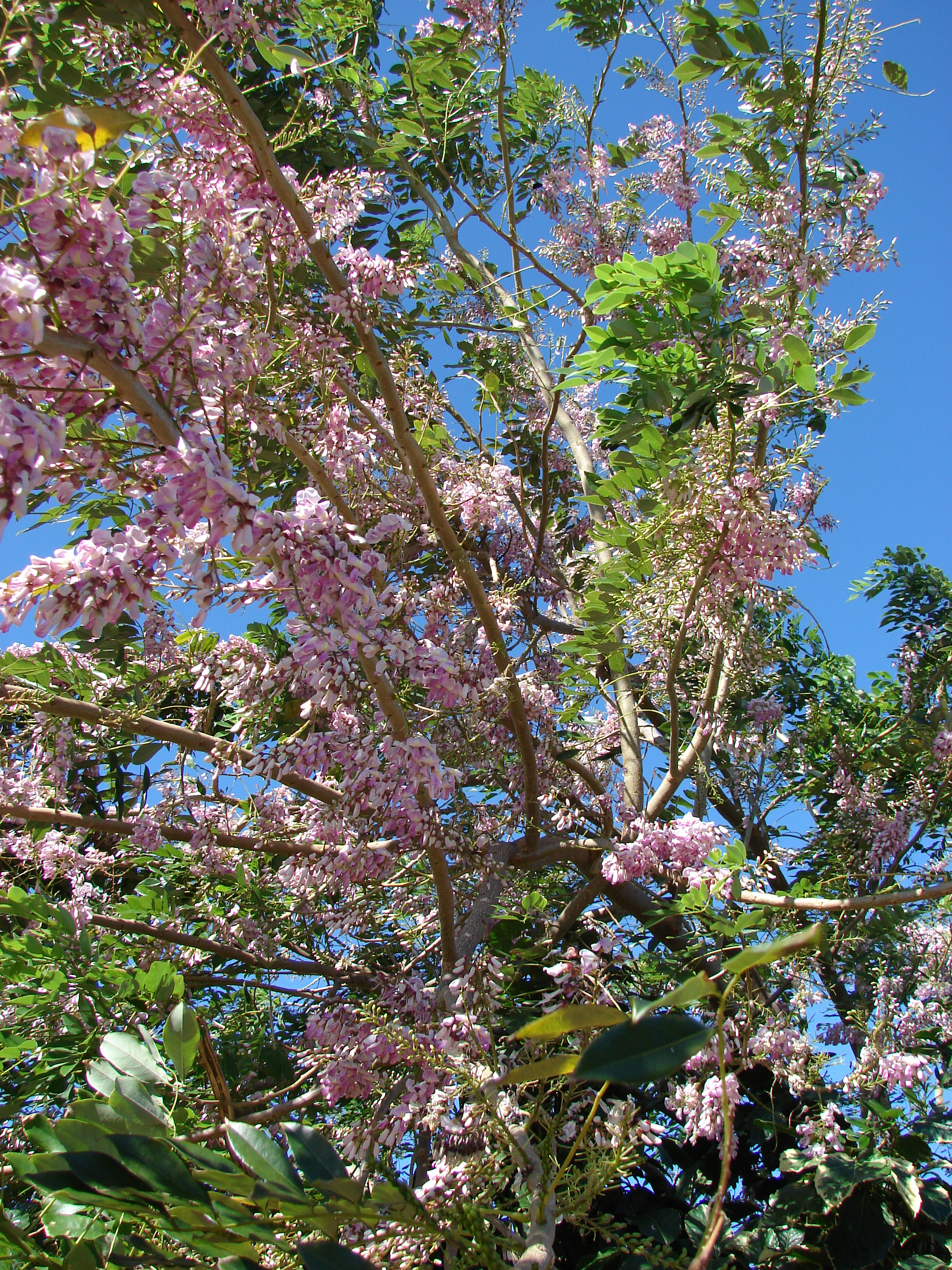 Gliricidia sepium (flowers and leaves). Location: Maui, Spreckelsville